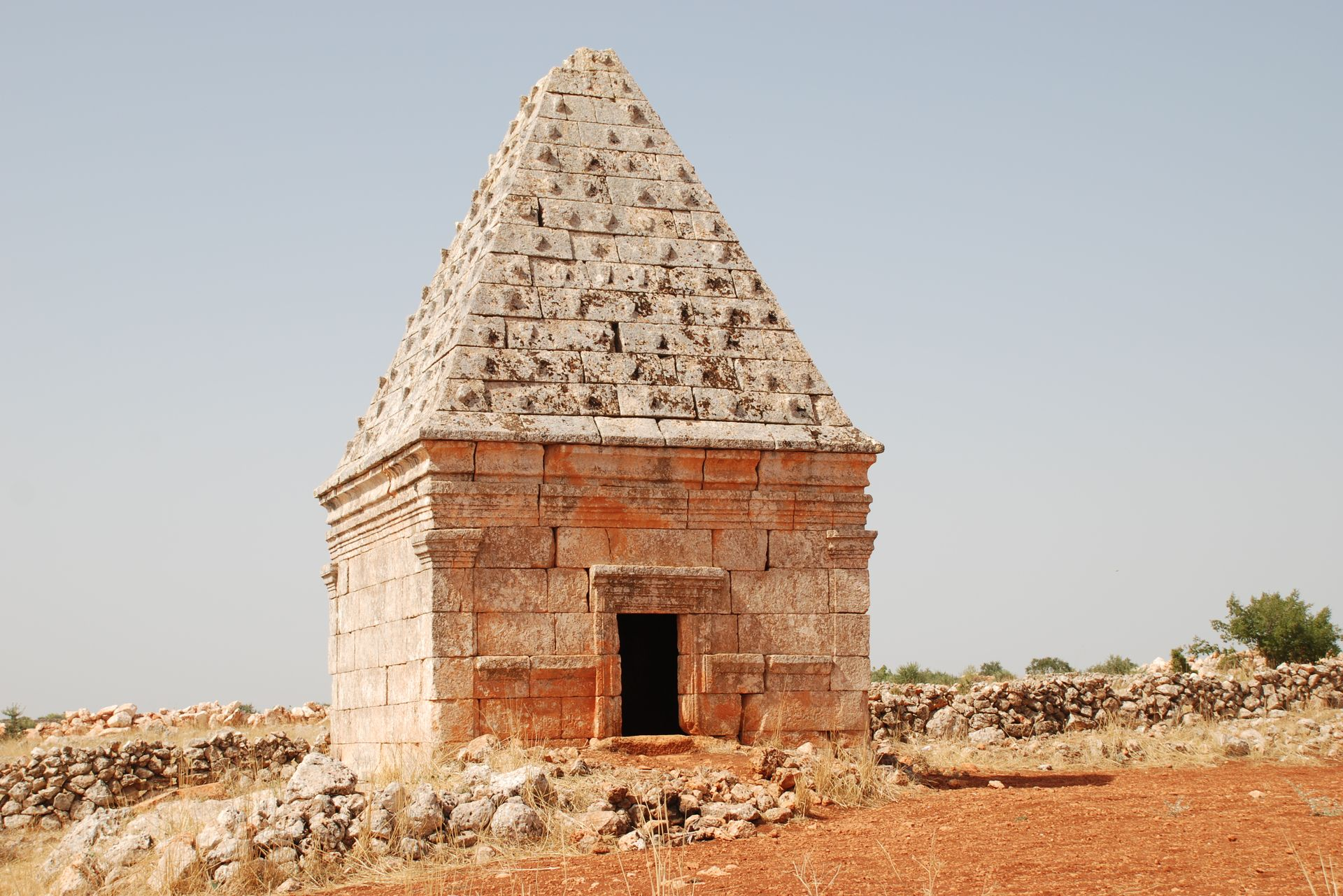 Bauda, dead city in Syria, near Serjilla, pyramid tomb